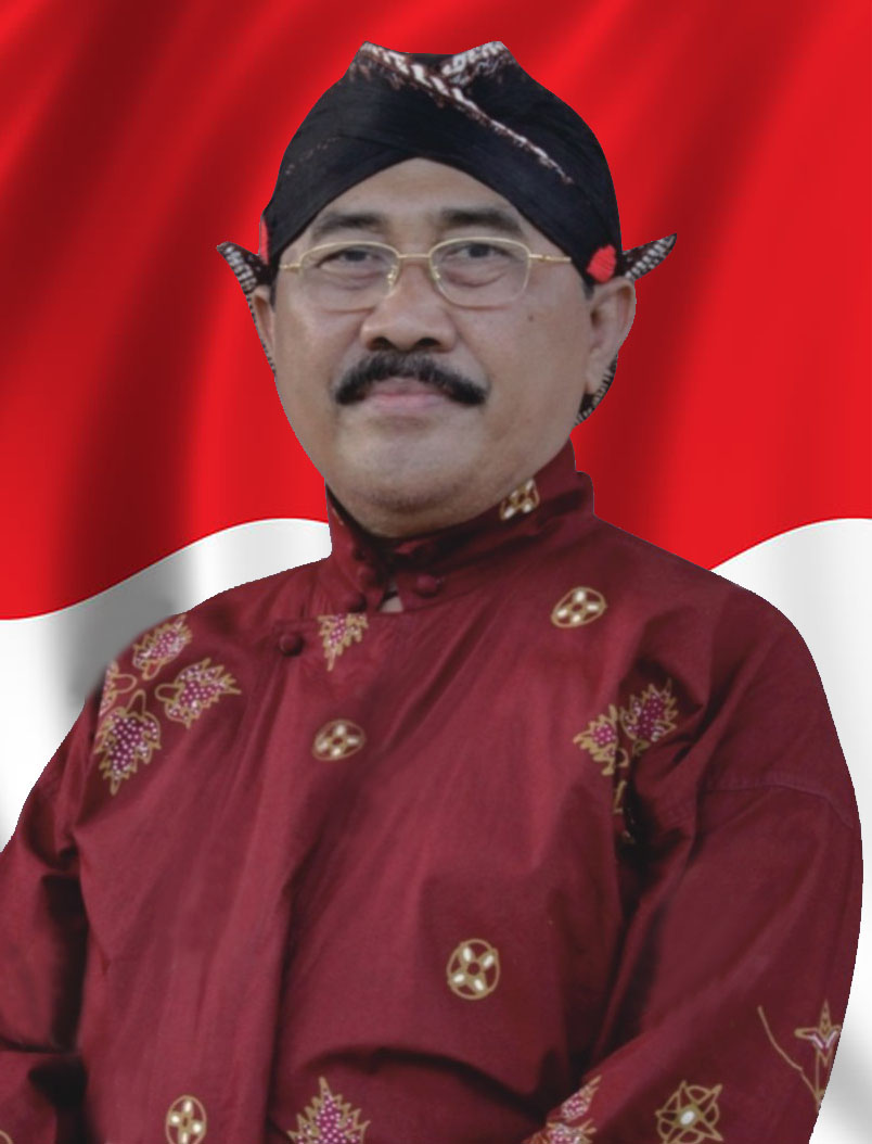 H. SUTEDJO calon Wakil Bupati Kulon Progo 2017